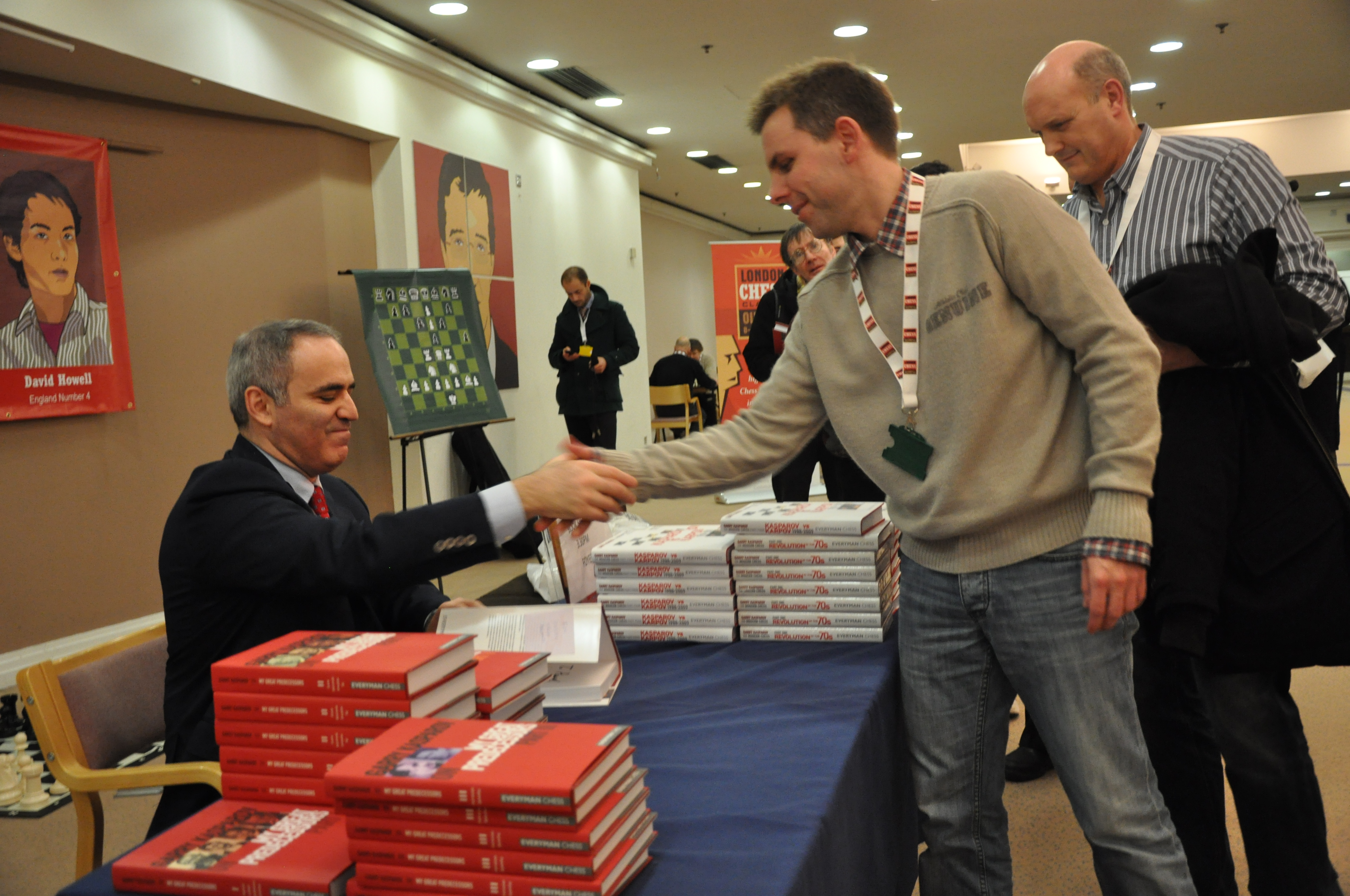 Garry Kasparov - London Chess Classic 2010